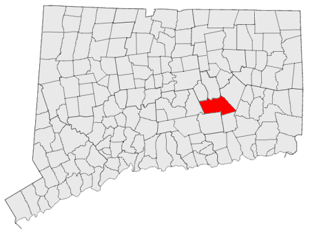 Location of Colchester, Connecticut